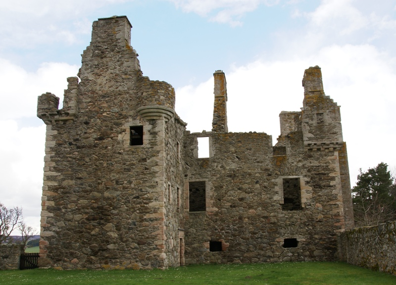 Glenbuchat Castle, Aberdeenshire, Scotland